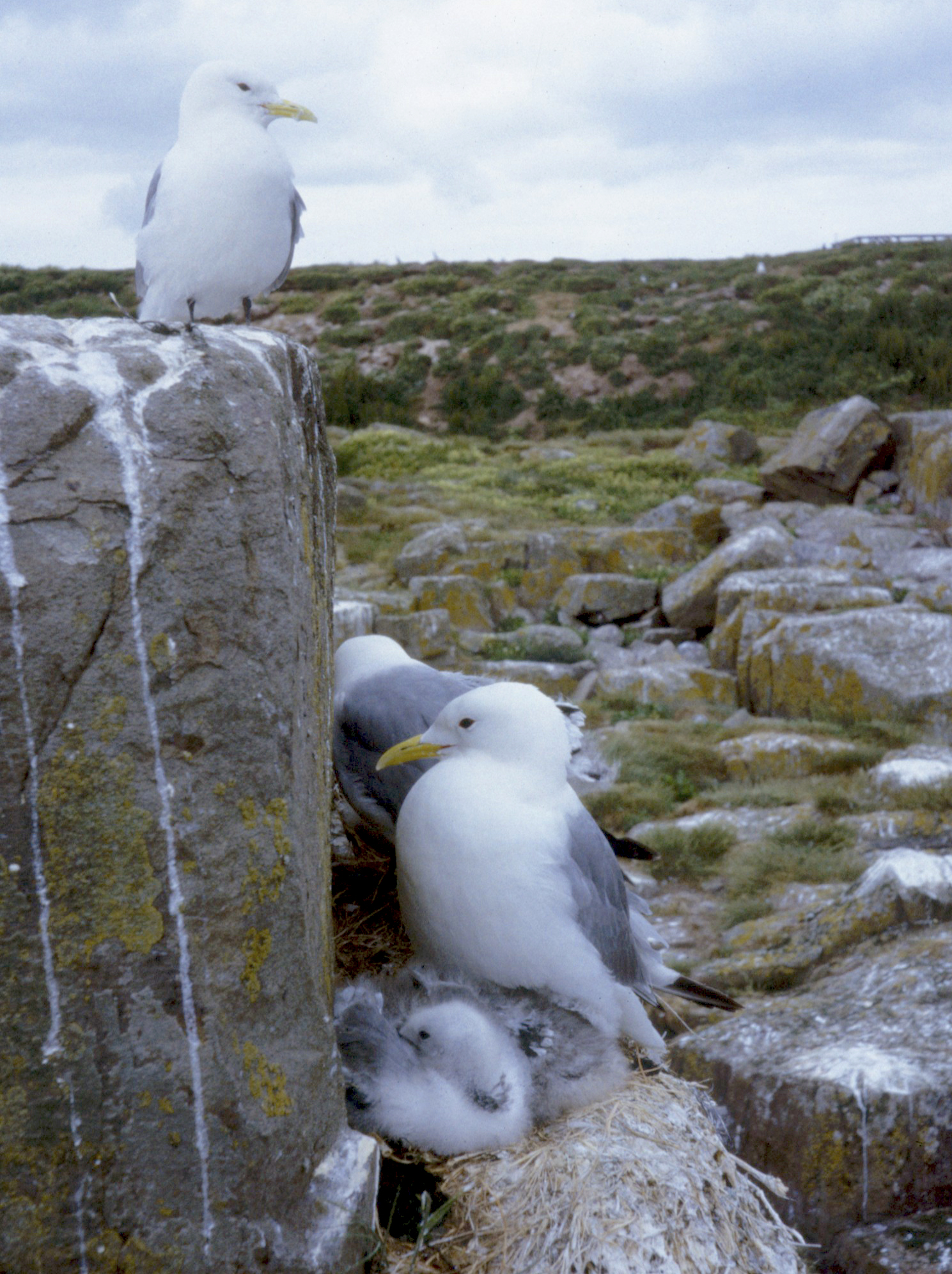 Kittiwake Rissa tridactyla at nest on Staple Island, Farne Islands, Northumberland.